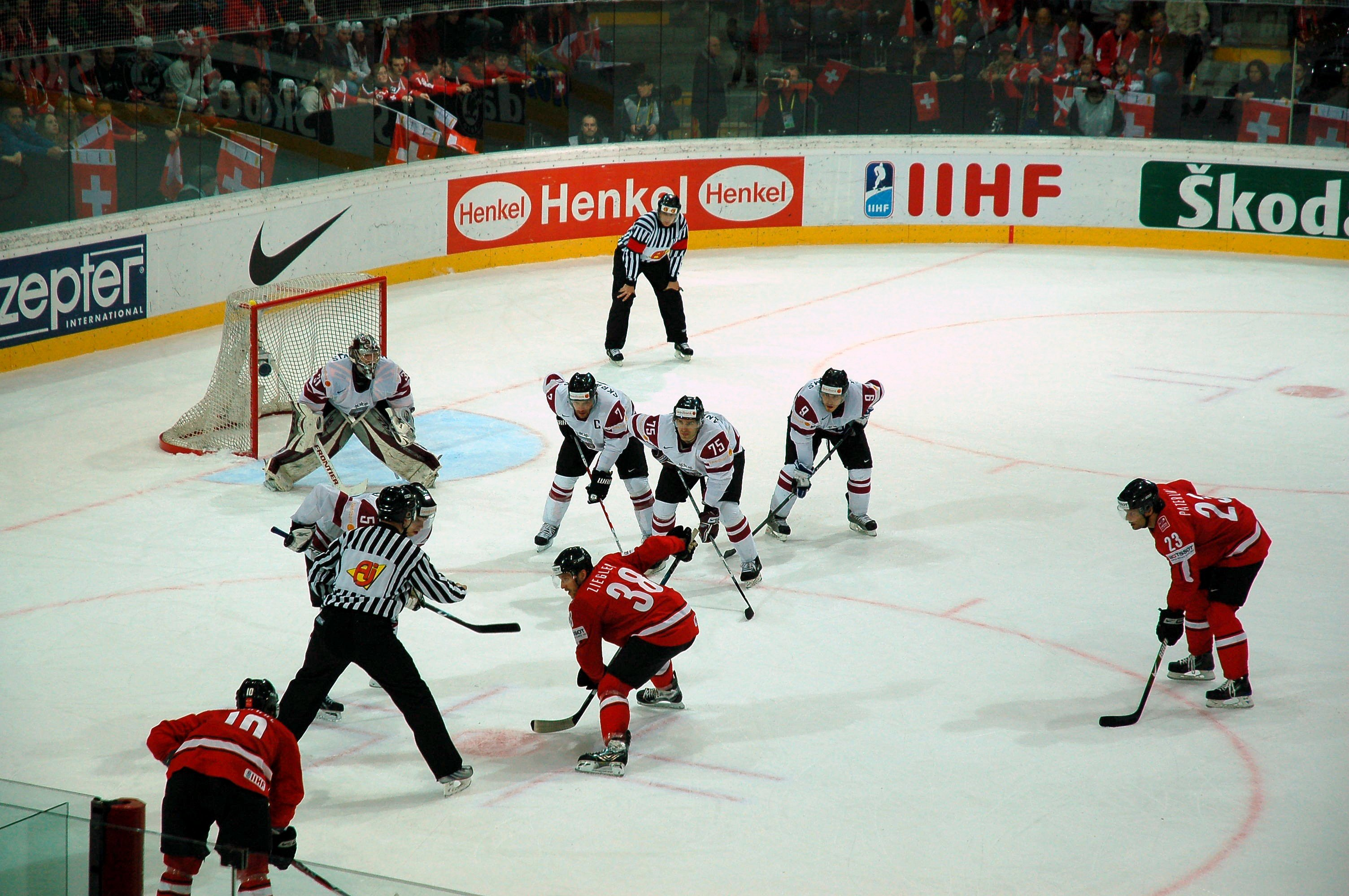 Latvia-Switzerland, 2:1 IIHF World championship 2009, Bern April 30, 2009 Swiss Players: #38 Ziegler, #23 Paterlini, #10 Andres Ambühl